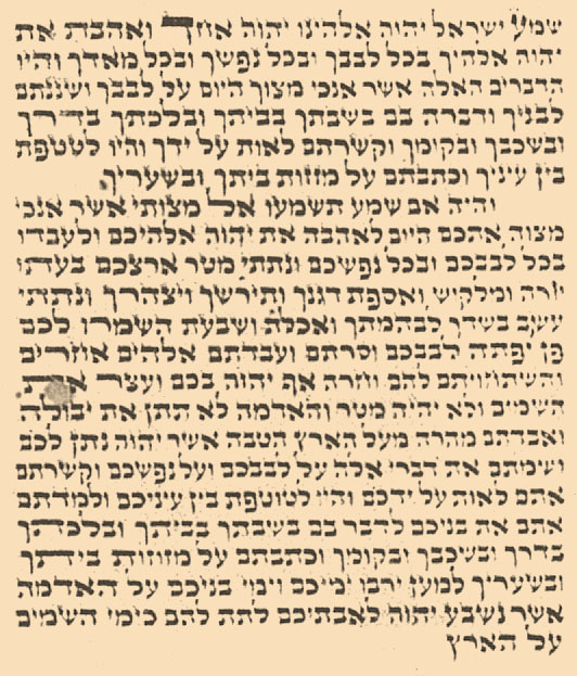 Illustration from Brockhaus and Efron Jewish Encyclopedia (1906—1913)